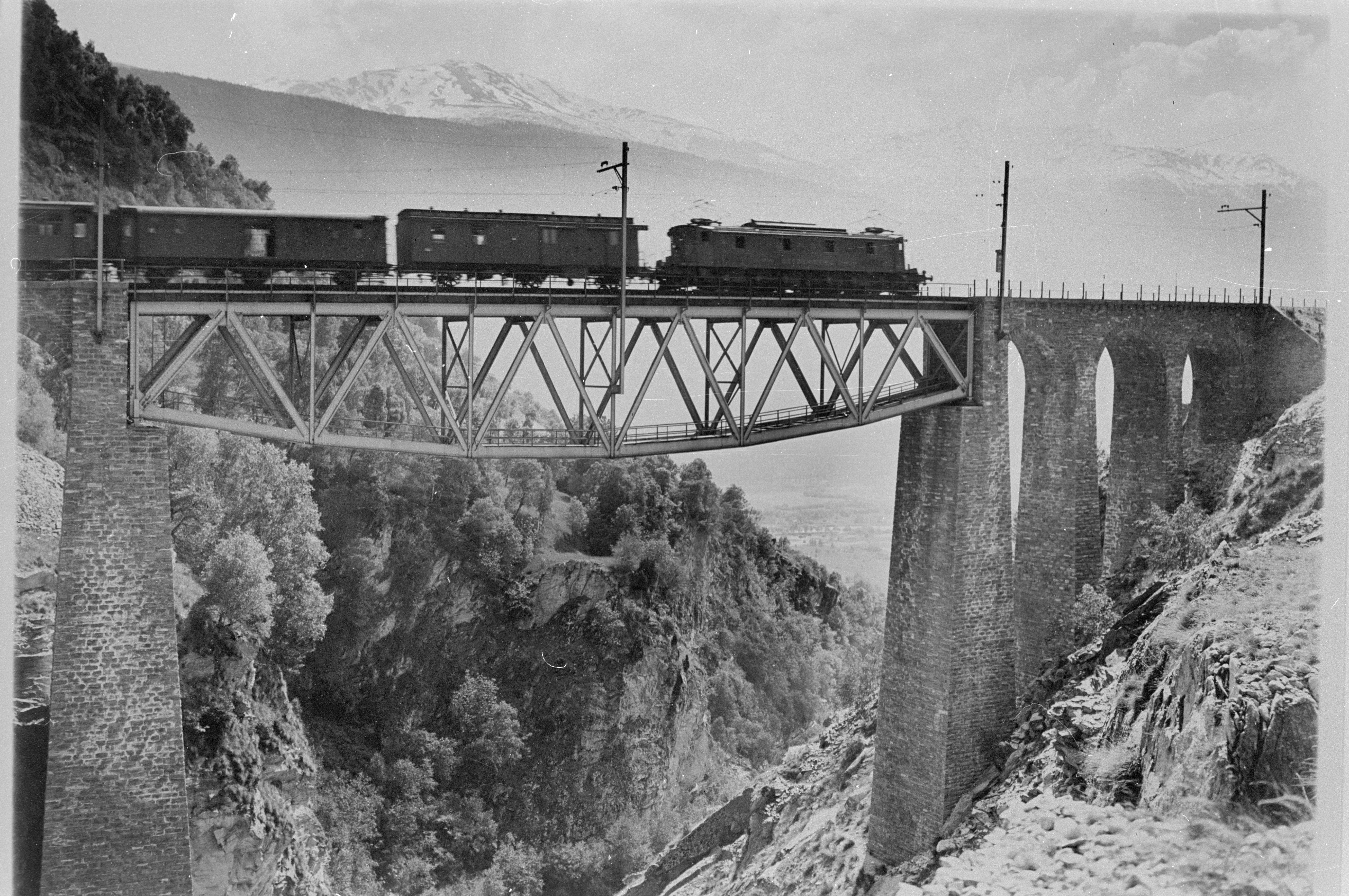 BLS Be 6/8 crossing the Baltschieder viaduct, circa 1930. The locomotive is followed by a three-axle mail coach and a three-axle baggage coach.